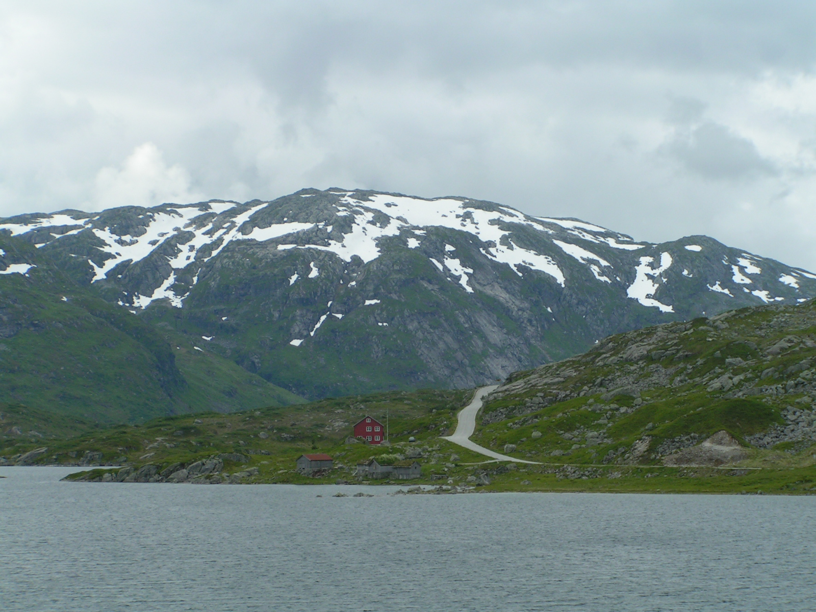 The mountain area Gaularfjellet in Sogn og Fjordane county in Norway. The road is riksvei 13. The lake is Nystølsvatnet and the summer farm by the lake is Nystølen.